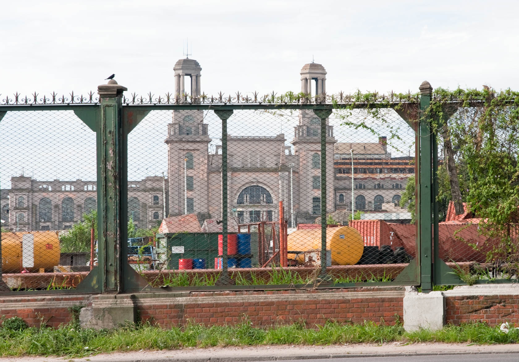 The Dr. Carlos Givogri Power Plant, completed in 1930 by the CIAE for the Port of Buenos Aires.